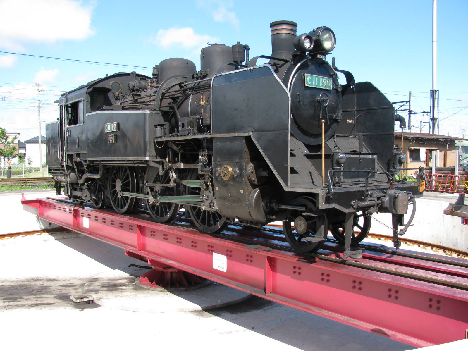 Turntable and SL C11 190 (Shin-Kanaya sta. of Oigawa Railway, Shizuoka Japan)